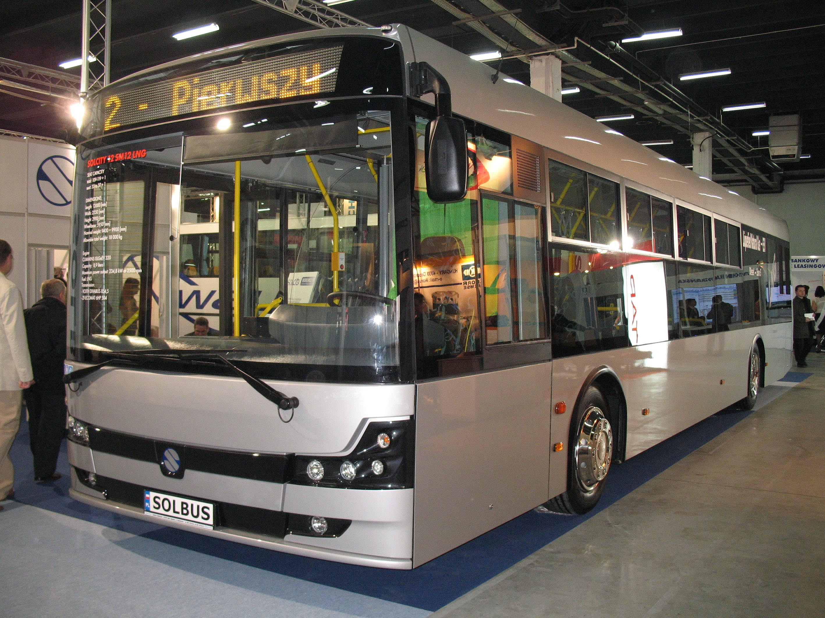 Solbus Solcity 12 LNG bus in Kielce, Poland. Built 2008. Transexpo 2008.